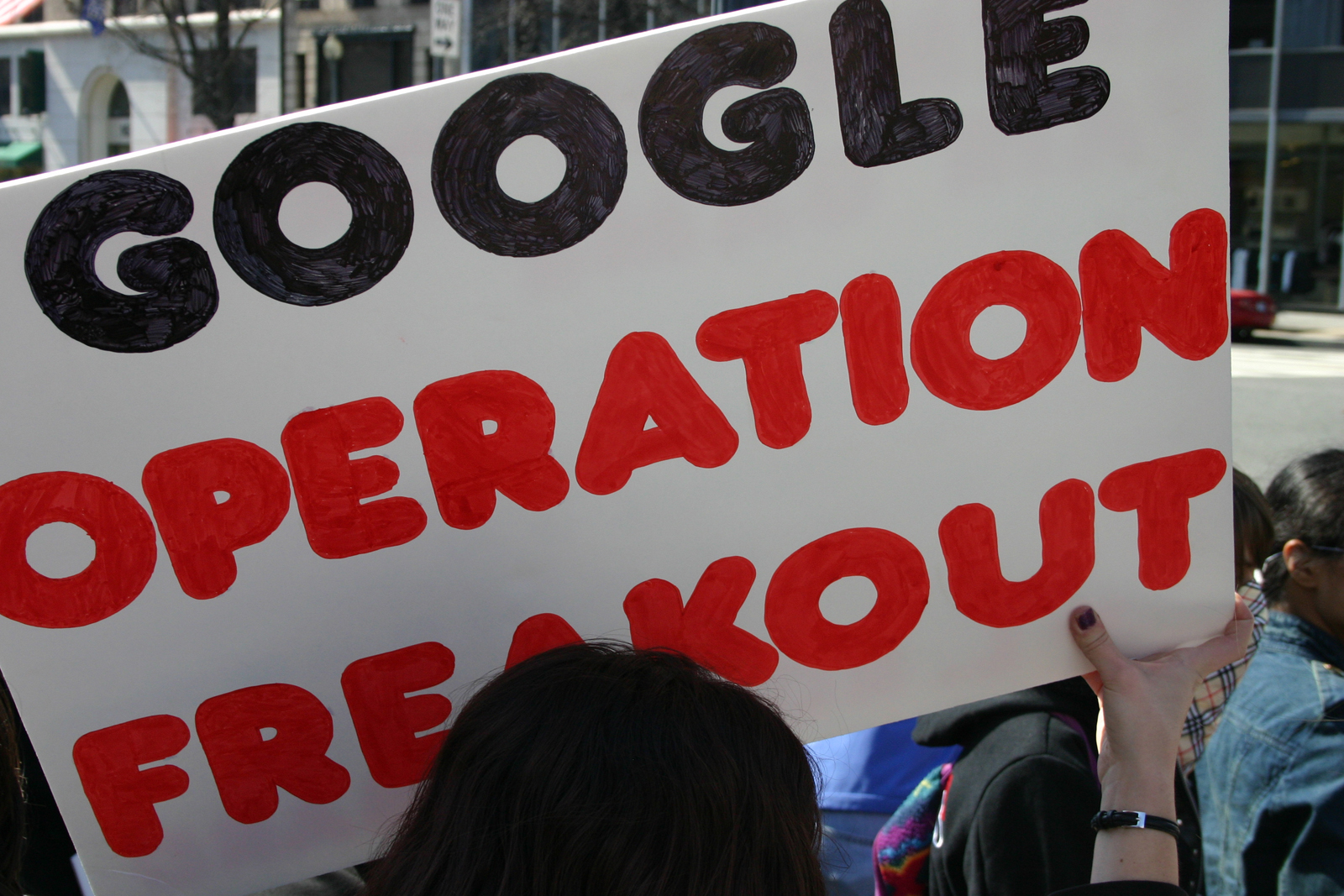 Anonymous protests the Church of Scientology in Washington, DC. 15 March 2008